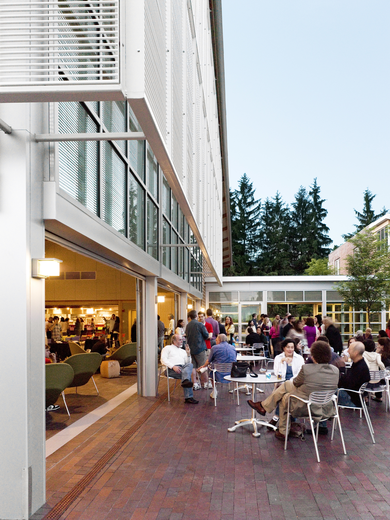 Bennington College, Bennington, VT Taylor & Burns Architects